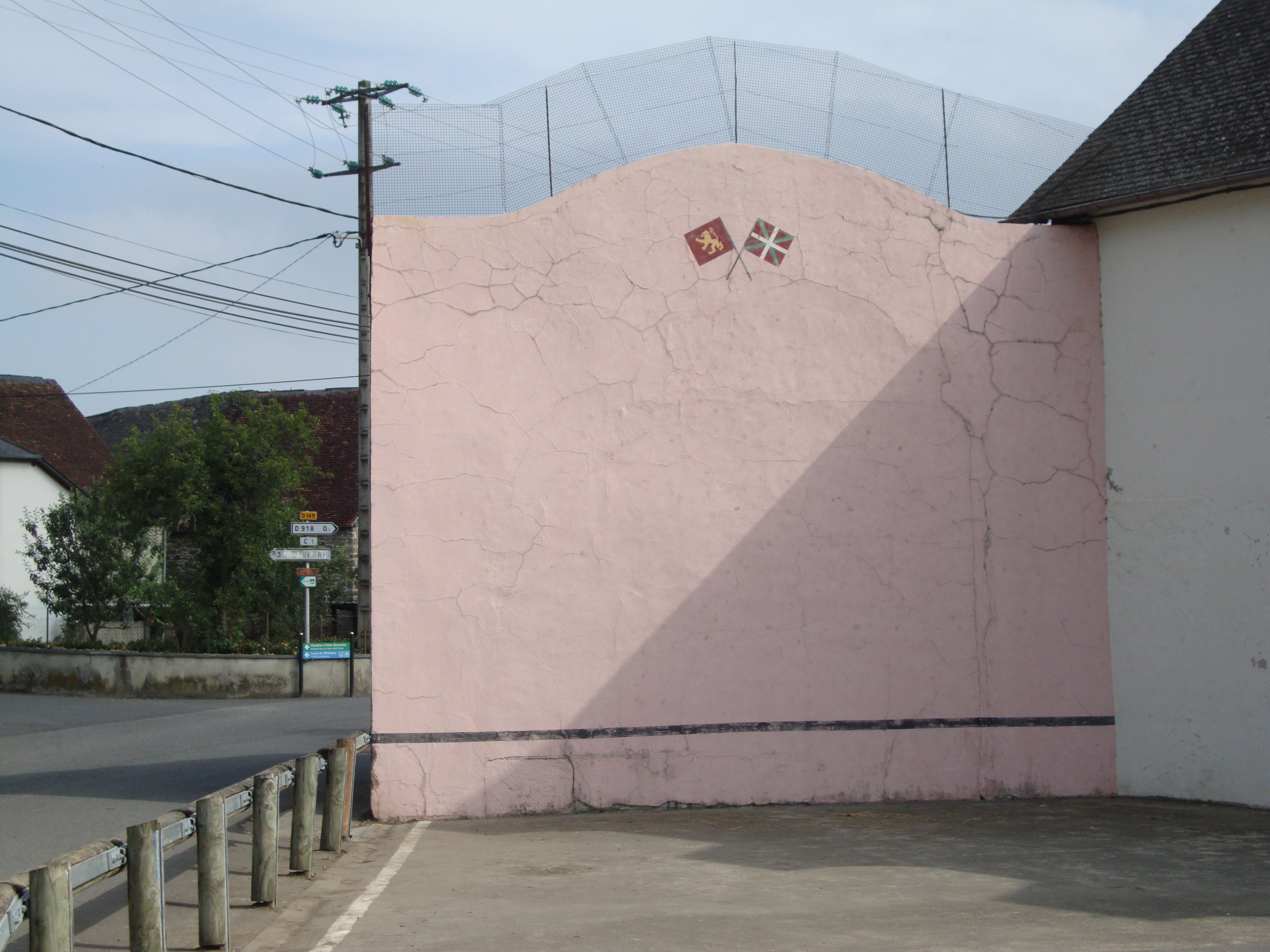 Ossas (Ossas-Suhare, Pyr-Atl, Fr) fronton.